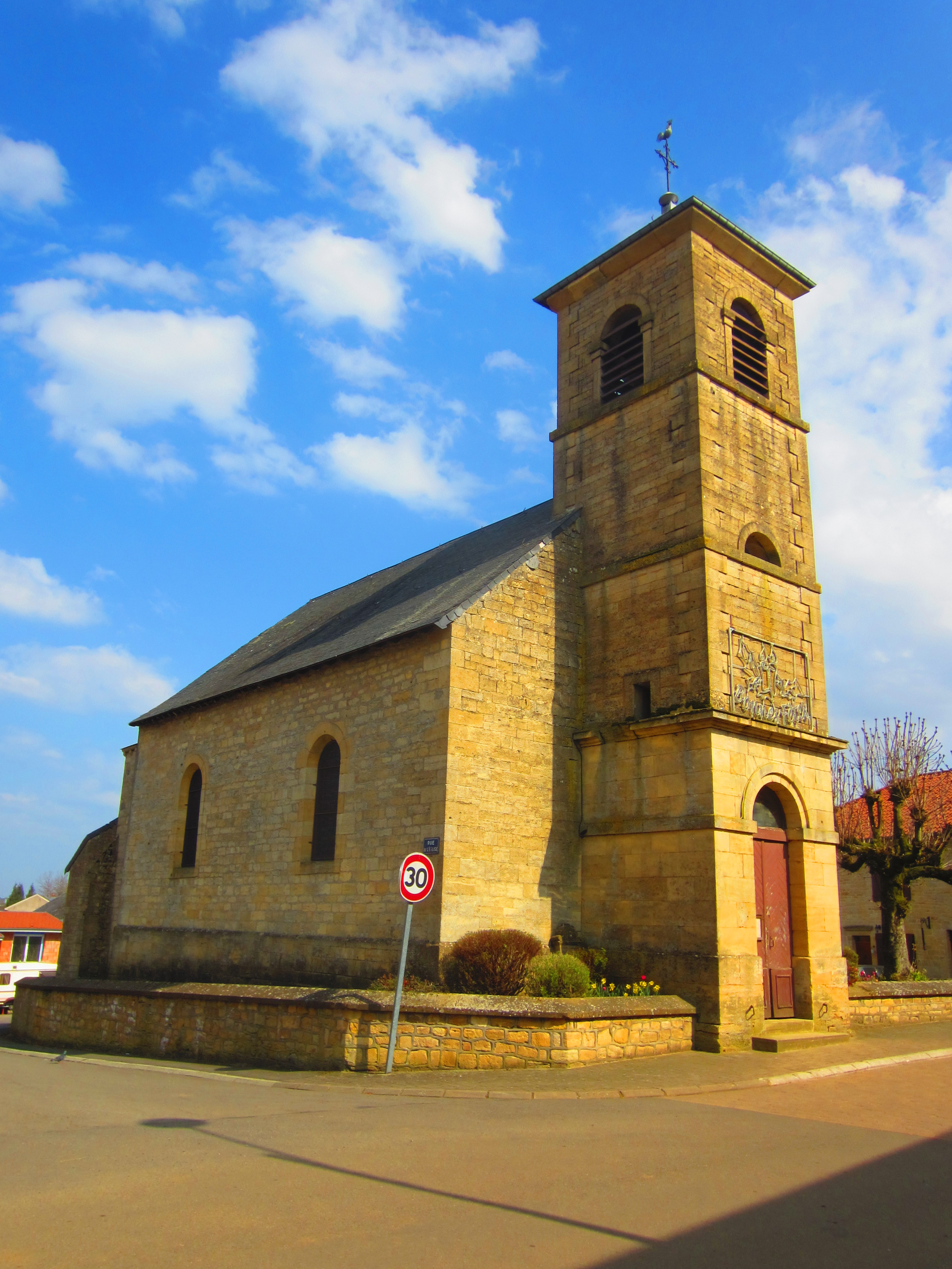 Villers Chevre church